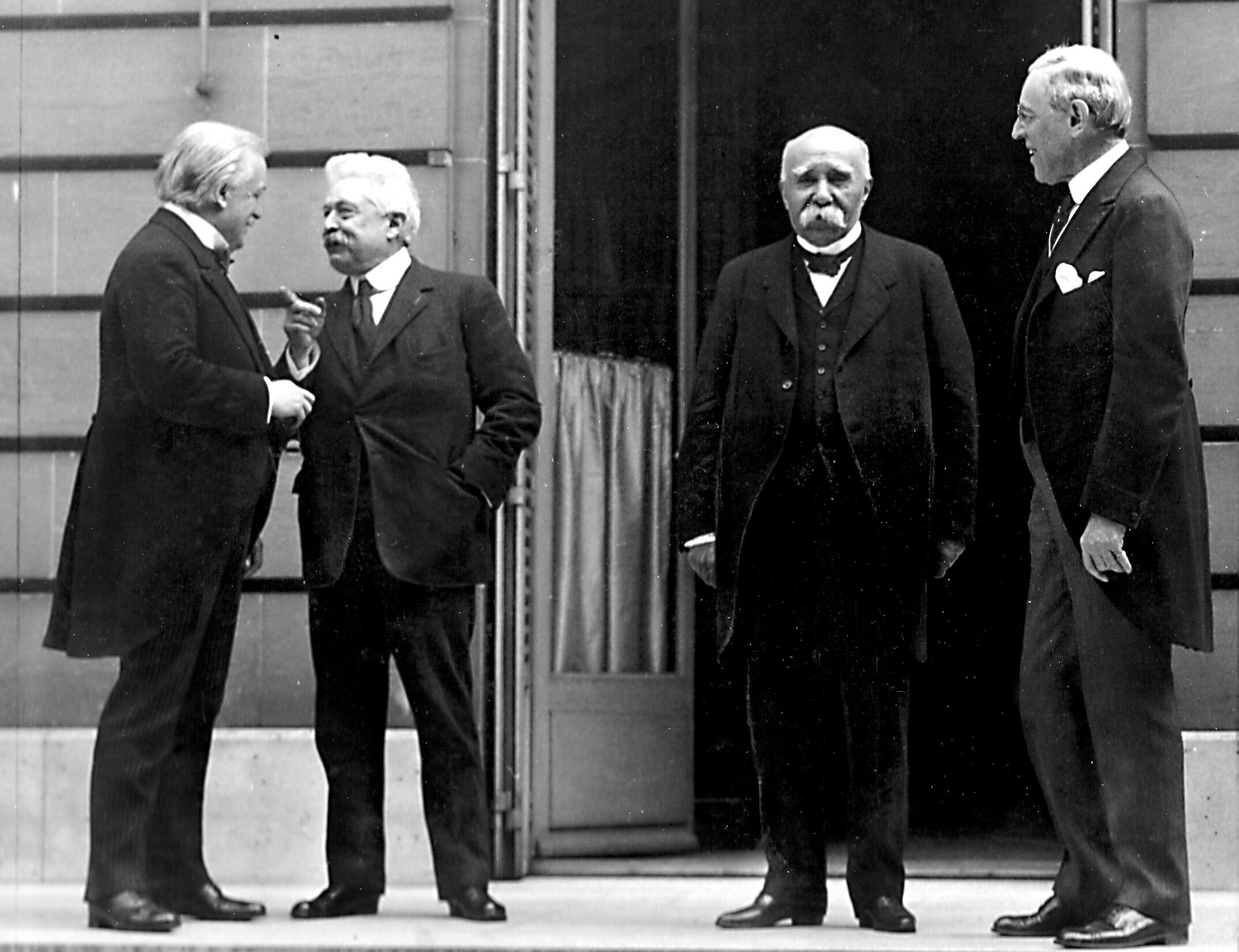 Council of Four at the WWI Paris peace conference, May 27, 1919 (candid photo) (L - R) Prime Minister David Lloyd George (Great Britian) Premier Vittorio Orlando, Italy, French Premier Georges Clemenceau, President Woodrow Wilson